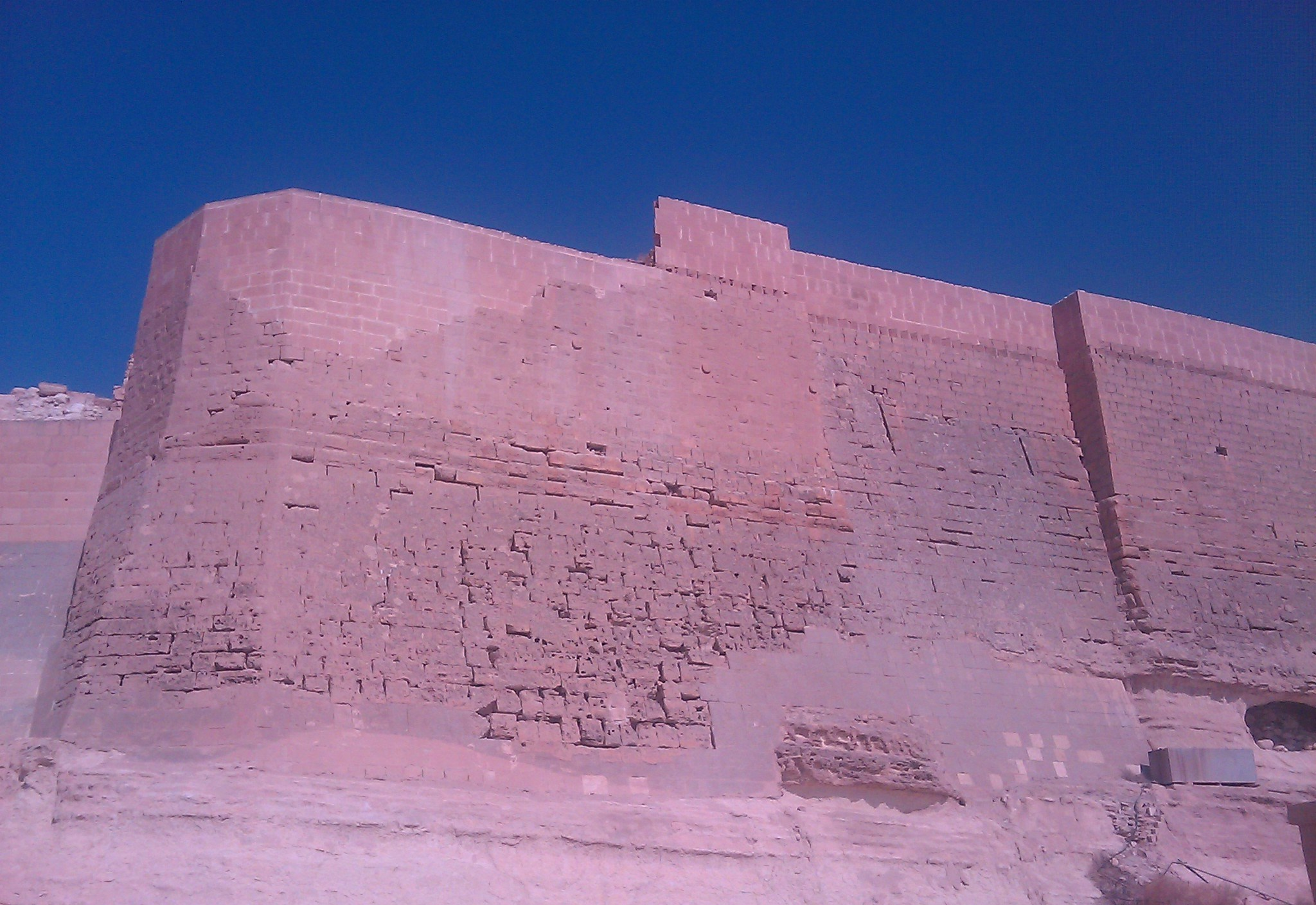 Qal'at Najm wall